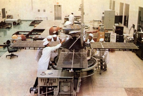 Last verifications of Mariner 4.